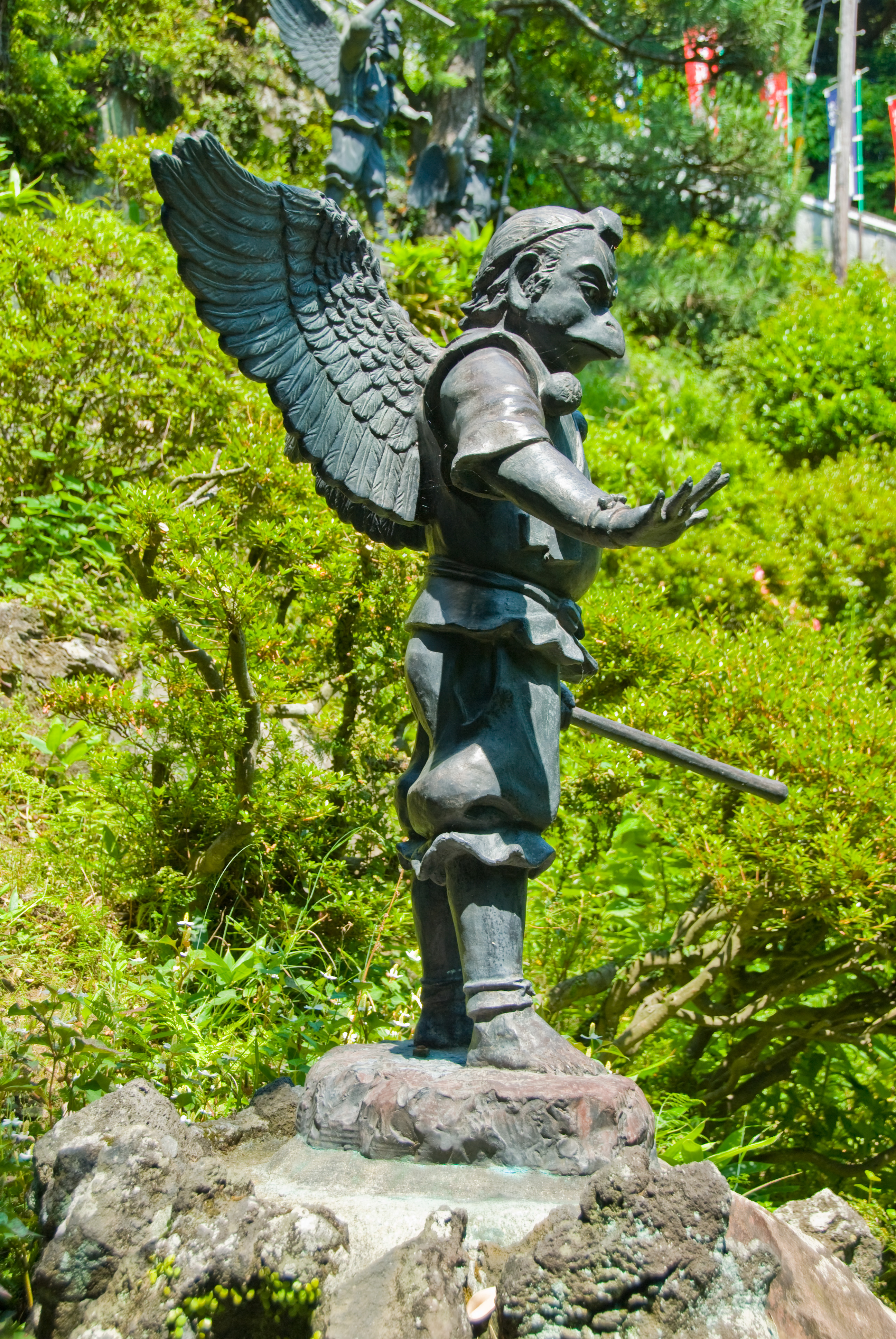 The Karasu-tengu at the Hansōbō shrine within Kenchō-ji, Kamakura